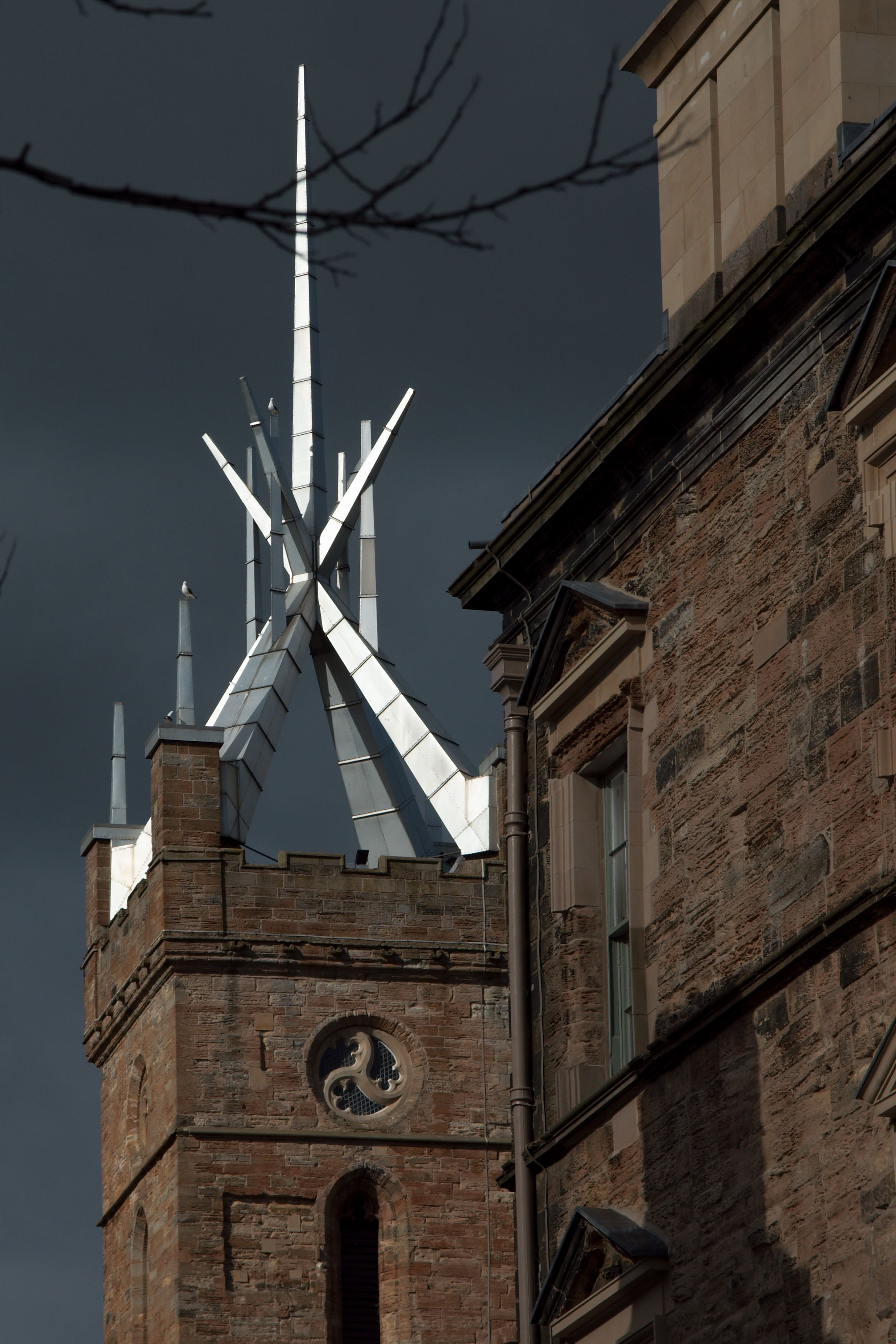 Linlithgow 2011